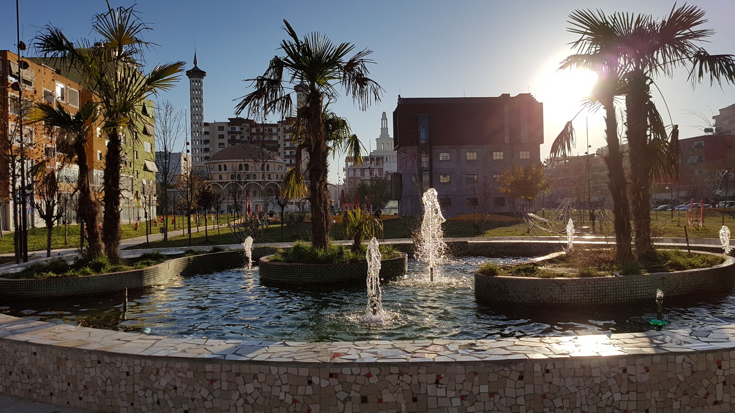 Central park-City of Fier, december 2018